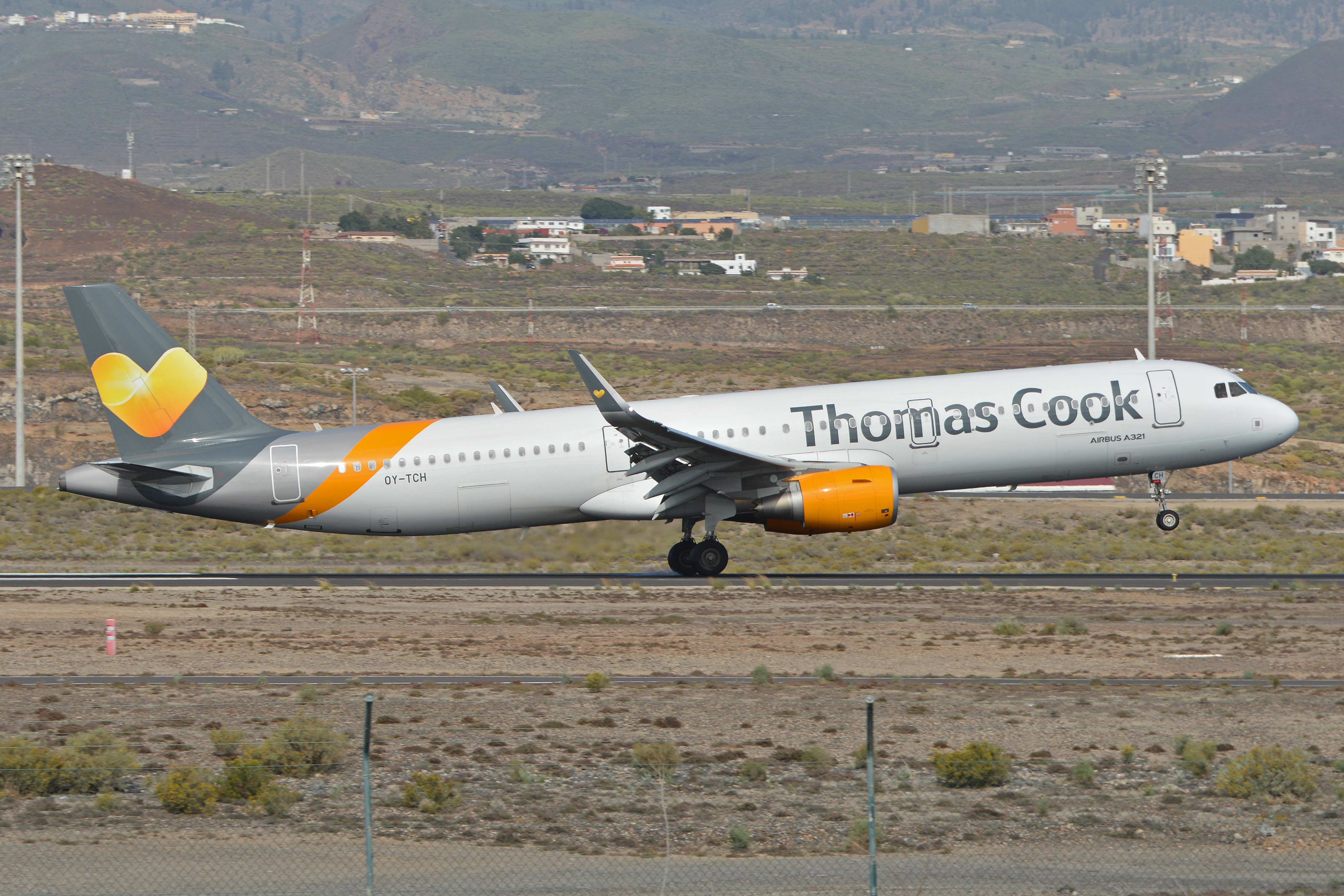 c/n 6438. Built 2015. Arriving on flight VKG3823 from Copenhagen. Tenerife South Airport, Tenerife. 17-1-2016